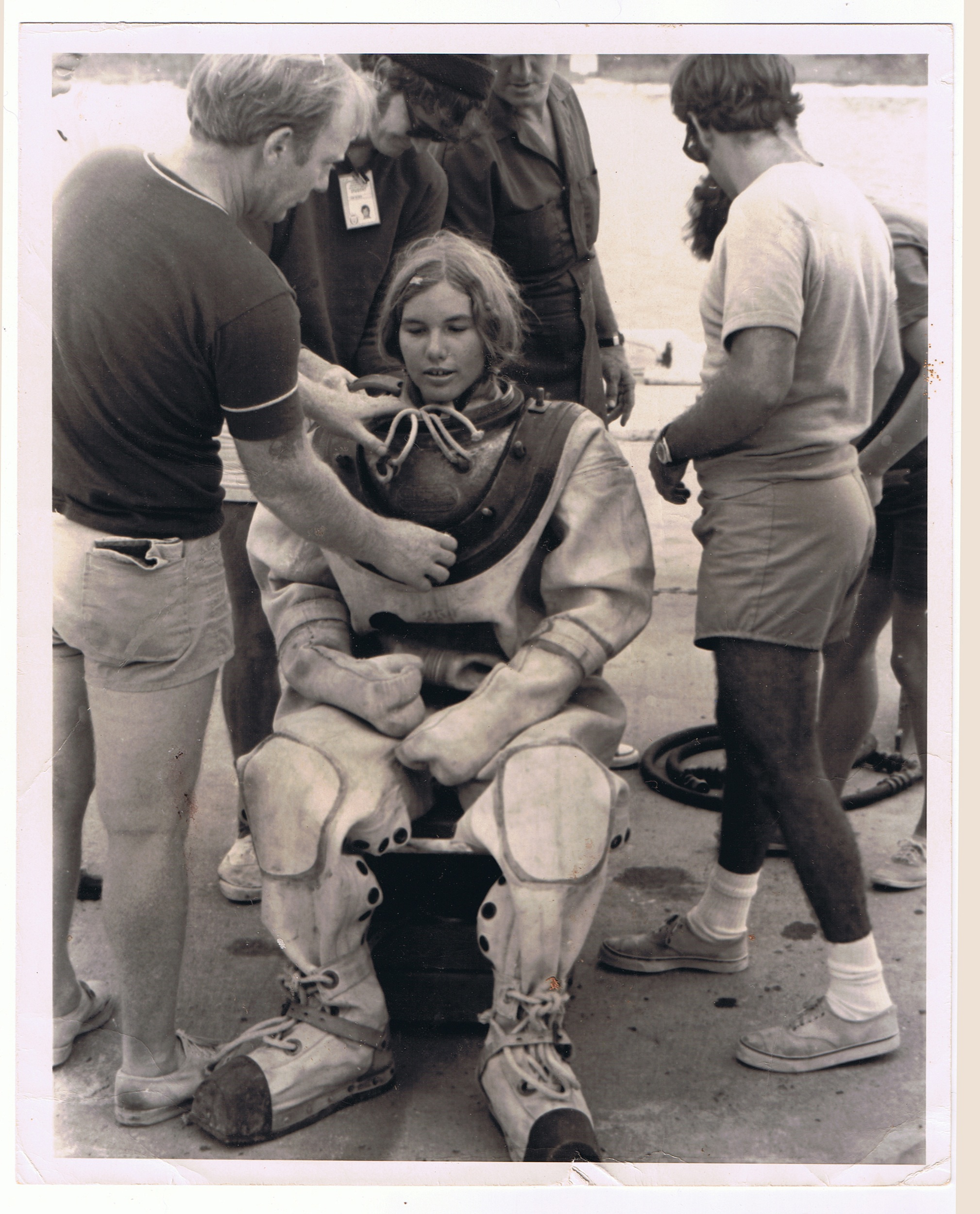 Picture of Anne Eidemiller Rudloe at the U.S. Naval base in Panama City participating in the underwater research and diving techniques as part of the "Scientists in the Sea" program.